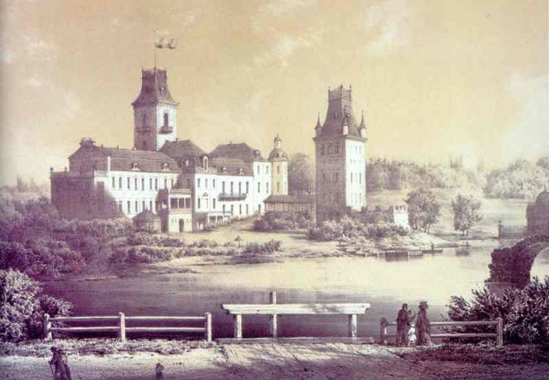 Palace of Radvilas